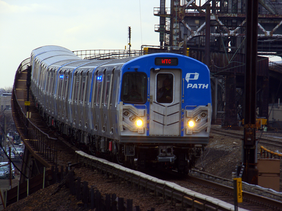 PA-5's in first day of service.